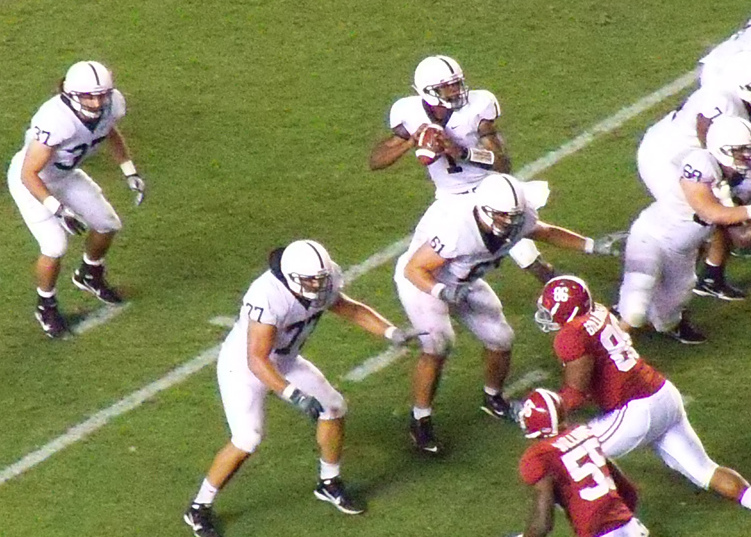 Penn State quarterback Rob Bolden steps back to pass against Alabama on Sept. 11, 2010. 37 is fullback Joe Suhey, 77 is tackle Lou Eliades and 61 is guard Stefen Wisniewski